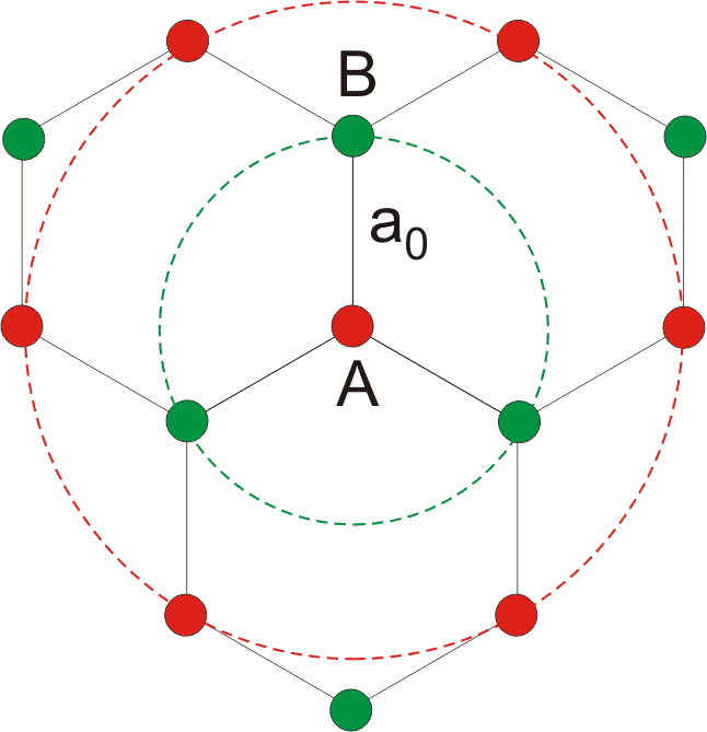 Graphene_Nearest_Neighbor